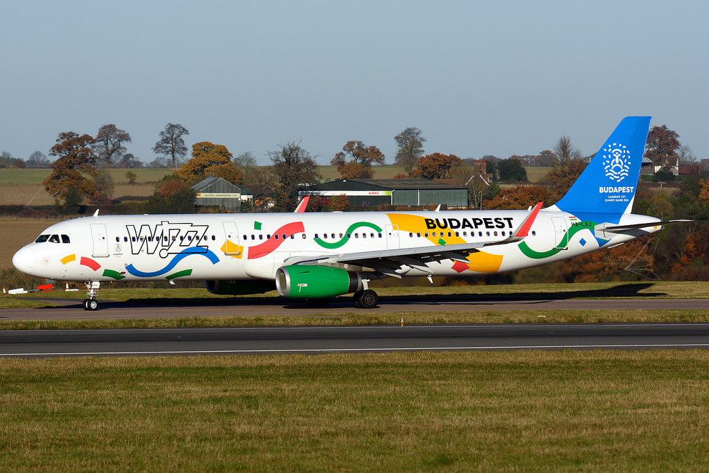 Wizz Air Budapest Airport